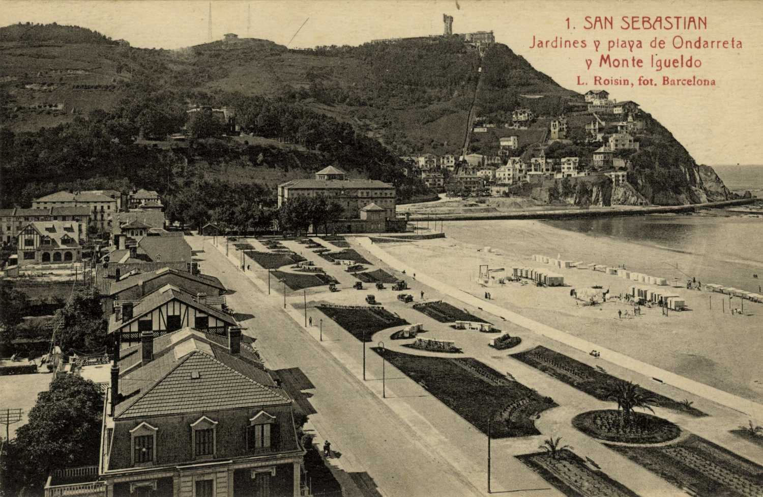 Ondarreta beach and prison in Donostia (San Sebastián), Basque Country